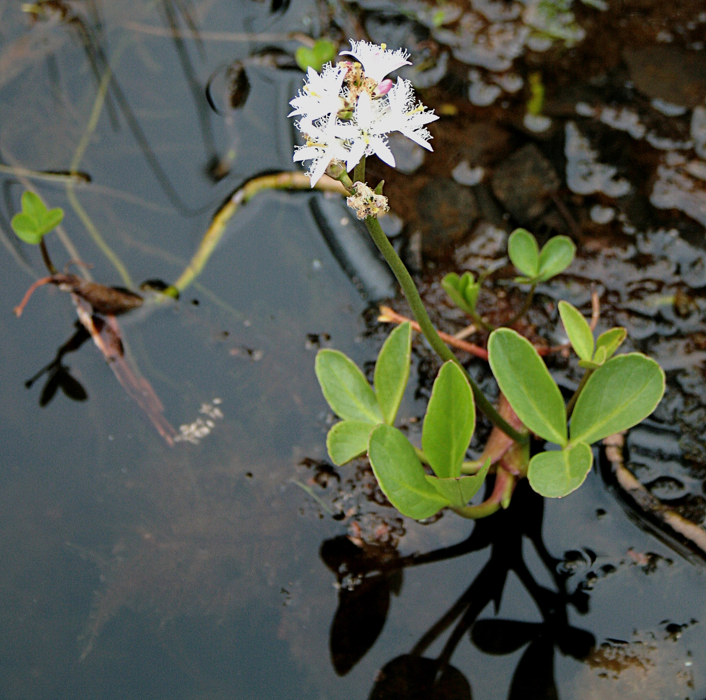 Ísland, Akureyri Botanical Gardens (Gartenecke 'Flora Islandica'): Fieberklee_(Menyanthes_trifoliata)